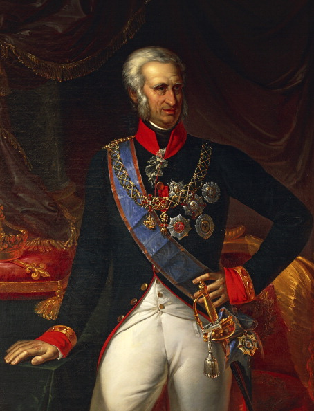 Portrait of Ferdinand I of The Two Sicilies (1751-1825), King of the Two Sicilies